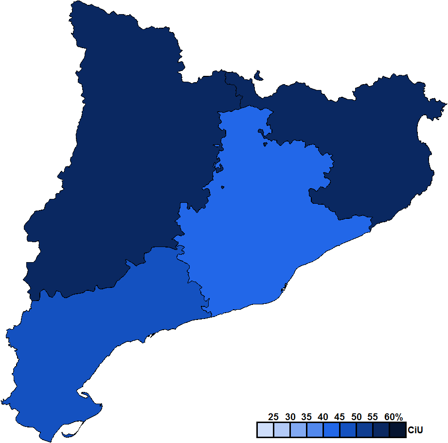 Provincial results for the 1984 Catalan regional election.